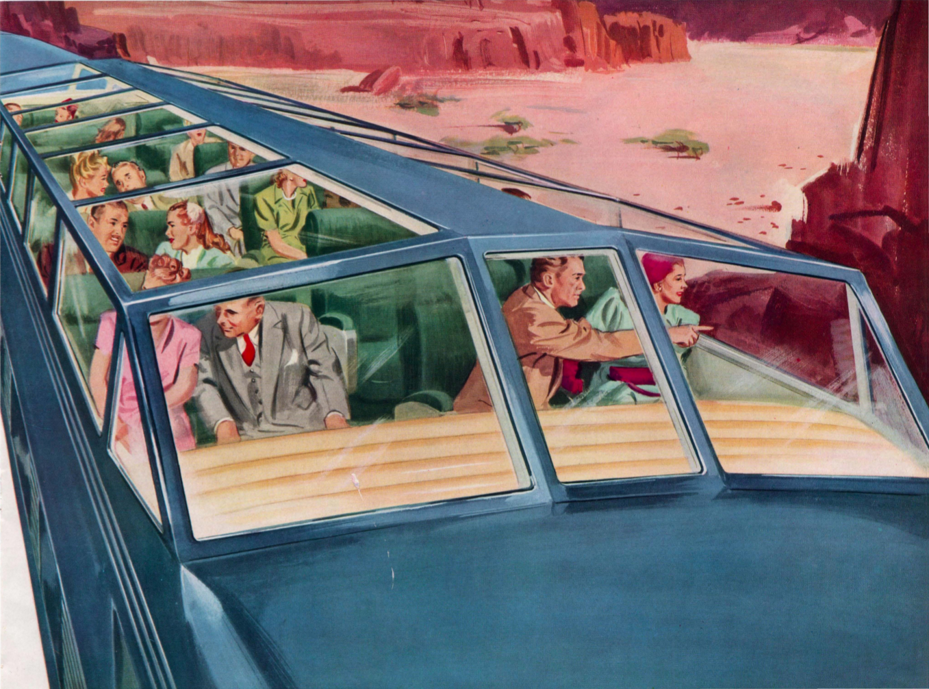 Artist's conception of an Astra Dome from a promotional brochure distributed by General Motors describing the Train of Tomorrow, a demonstrator built by GM and Pullman-Standard.